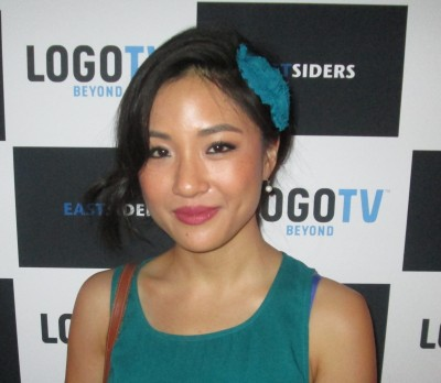 Constance Wu at a party for EASTSIDERS - the webseries